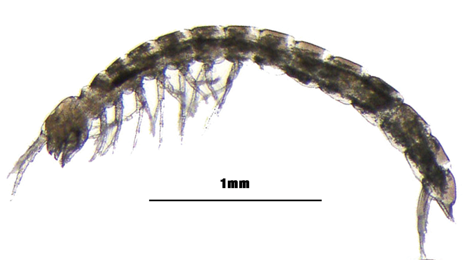 Lateral view of female Paraiberobathynella cf. fagei (Delamare Deboutteville & Angelier, 1950; Bathynellacea: Parabathynellidae) from Higuera cave, Murcia (Spain).